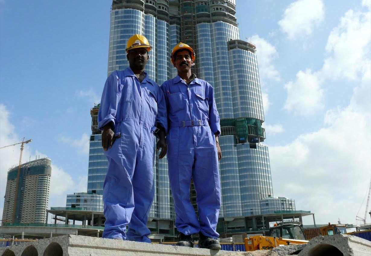 This is a photo showing construction workers standing in front of the Burj Dubai in Dubai, United Arab Emirates. The Dubai Mall Hotel can be seen to the left. This photo was taken on 25 January 2008.